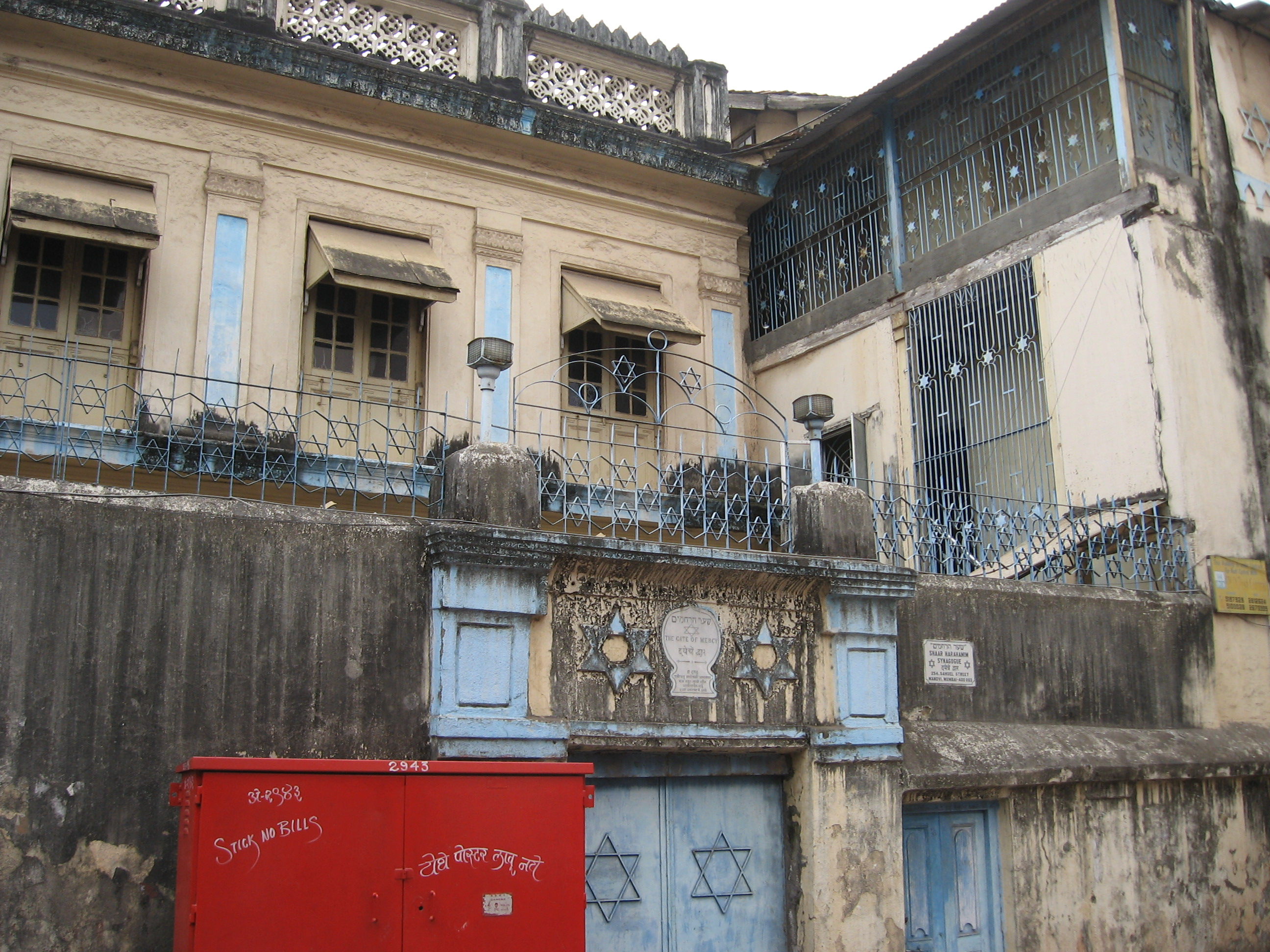 The 200-year old Gate of Mercy Synagogue. Built in 1796, it is the oldest synagogue in Mumbai (Bombay)